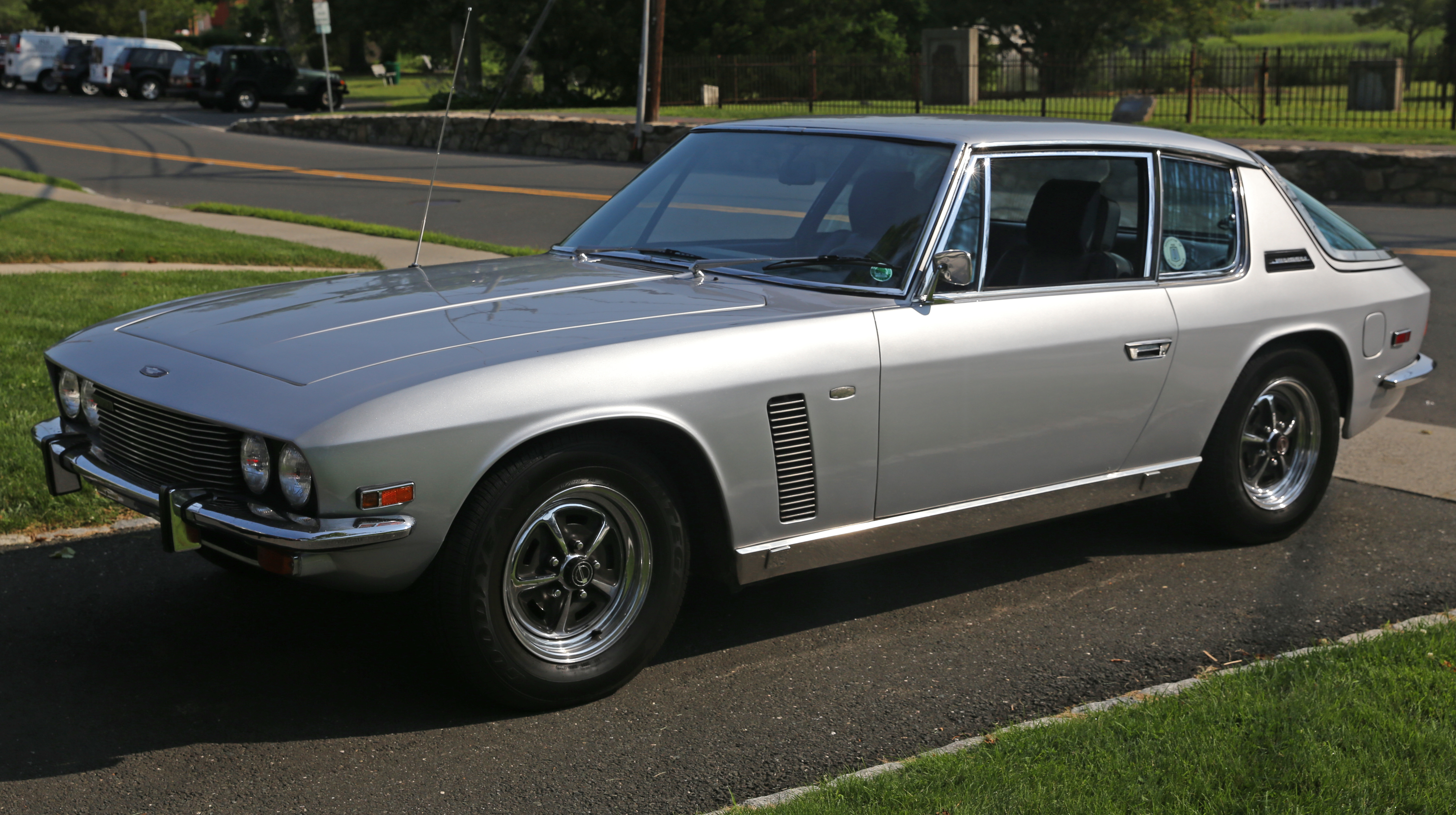 1971 Jensen Interceptor Mk II, with Chrysler's 383 V8 engine.